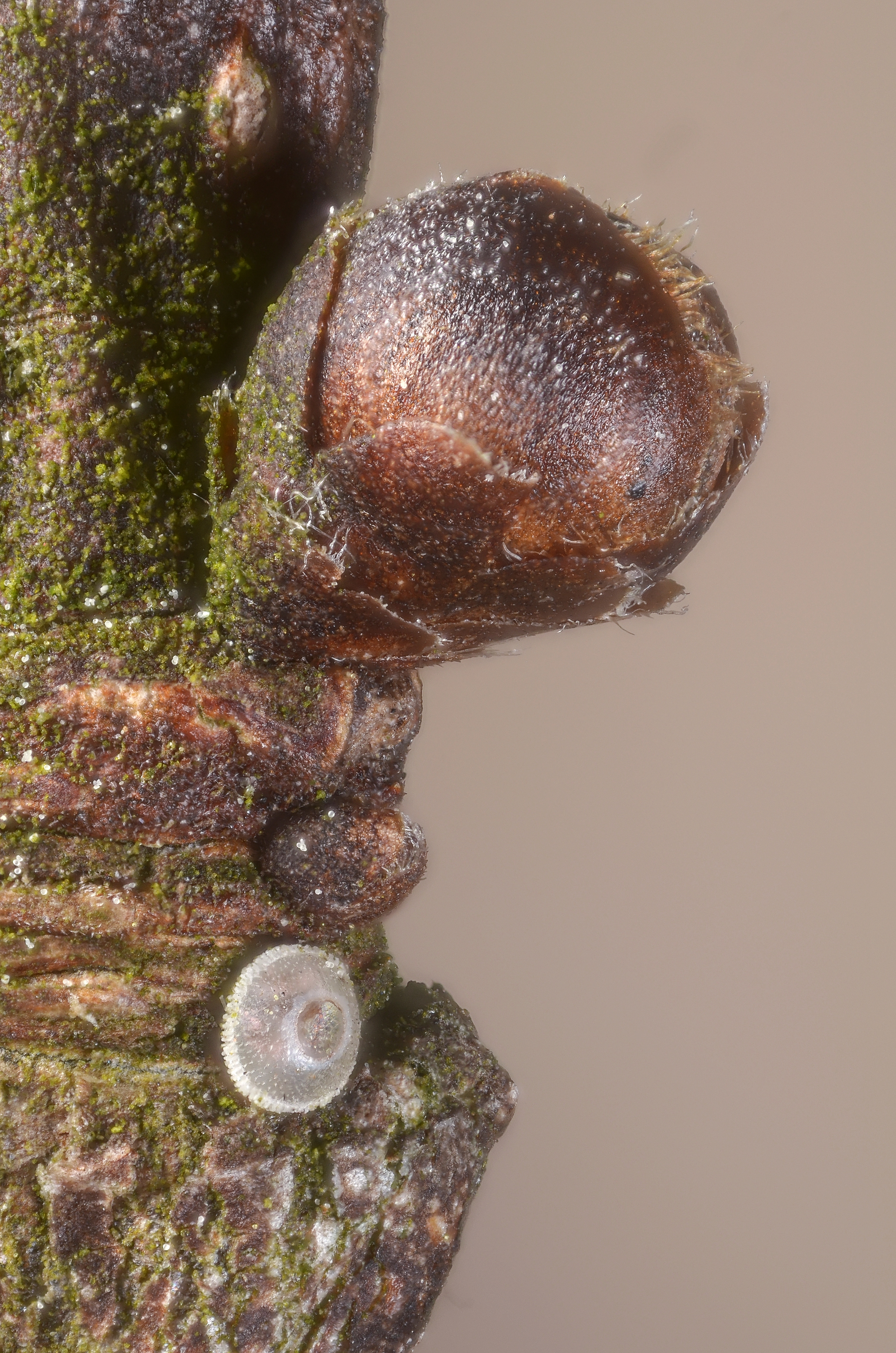 Egg (after hatching) of the butterfly Satyrium w-album on an elm (Ulmus sp.) twig Scale : egg width = 1mm Technical settings : - focus stack of 28 images - 28mm Componon lens reversed on a bellow